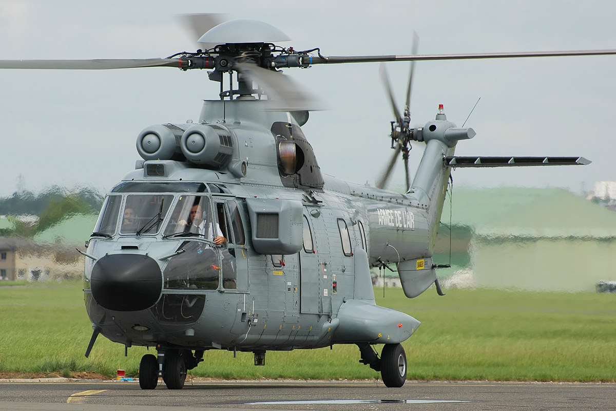 Eurocopter AS 332 Super Puma with Prime Minister of France François Fillon at Le Bourget airport